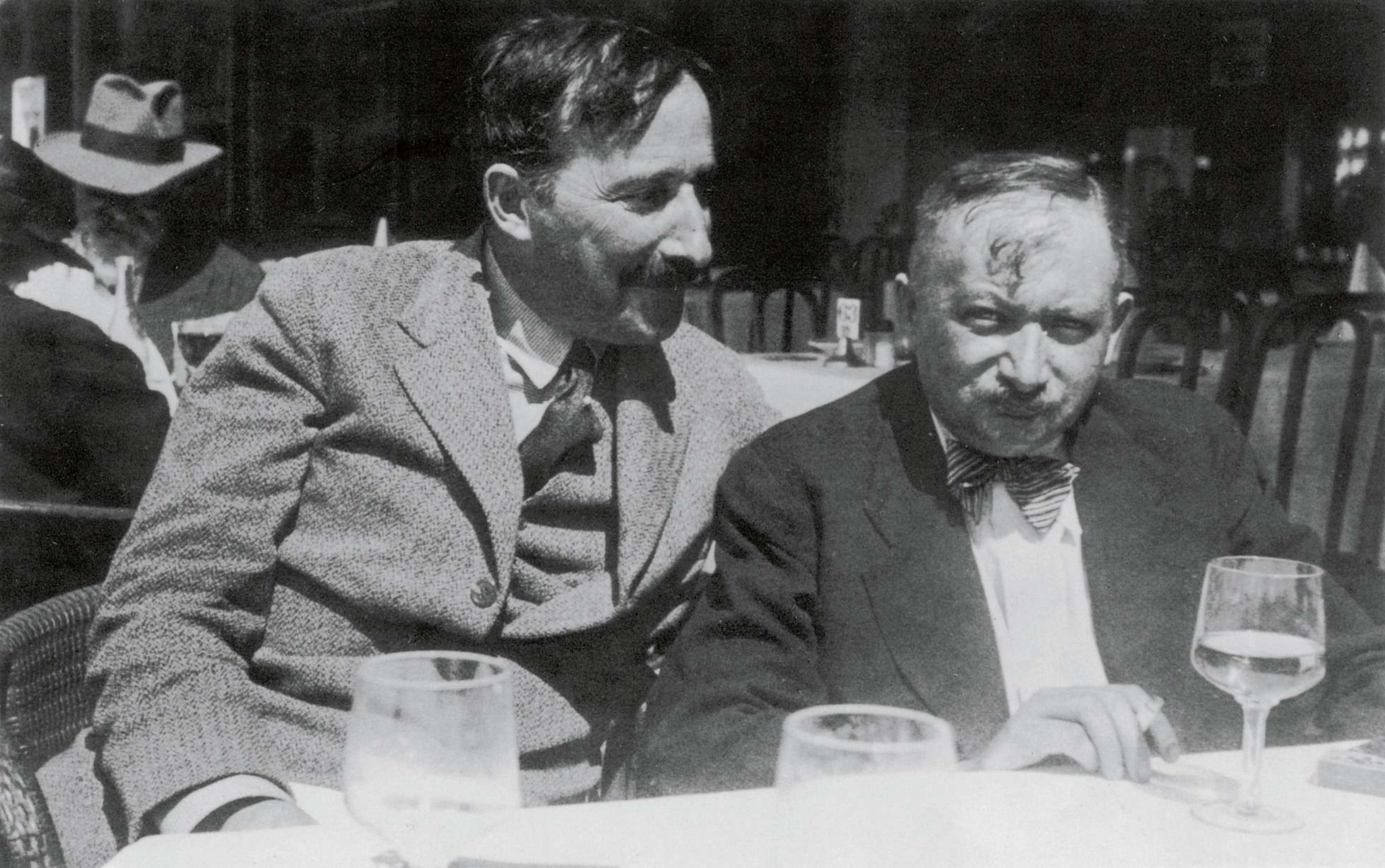 Picture of Stefan Zweig and Joseph Roth on the terrace of the Italian restaurant Almondo in the Langestraat in Ostend, summer of 1936. Photographer is assumed to be Zweigs lover and secretary Lotte Altmann.